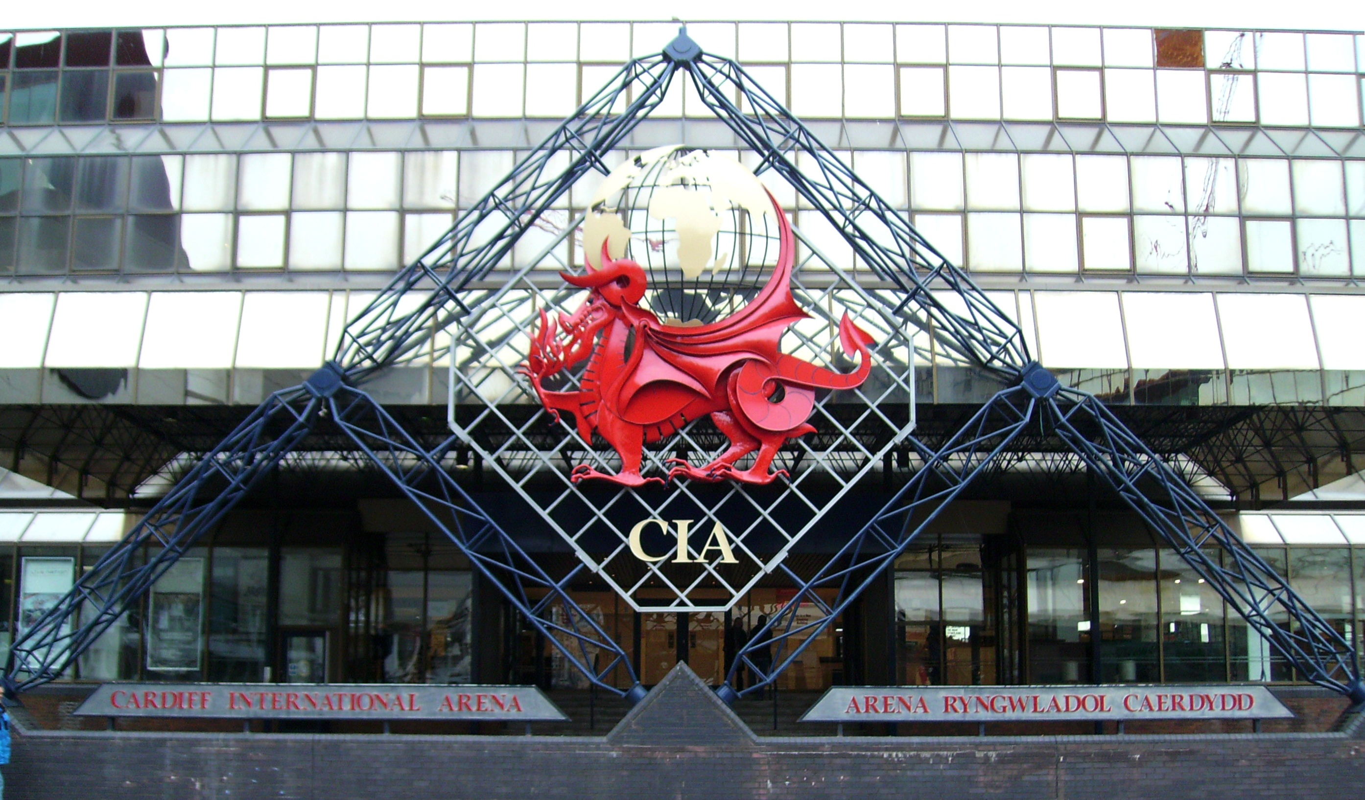 Cardiff International Arena, Cardiff, Wales